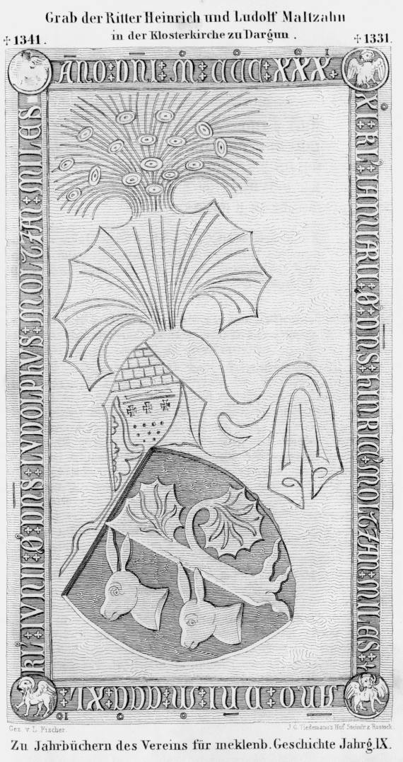 Armorial grave stone of knights Heinrich and Ludolf Maltzahn in Dargun; Lithography from Georg Christian Friedrich Lisch: Familie von Maltzan. In: Jahrbücher des Vereins für Mecklenburgische Geschichte und Altertumskunde 9 (1844), 469-471